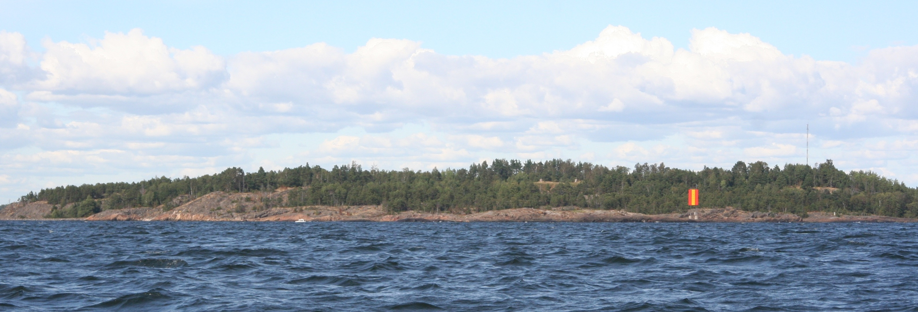 Kuninkaansaari island in Helsinki seen from south